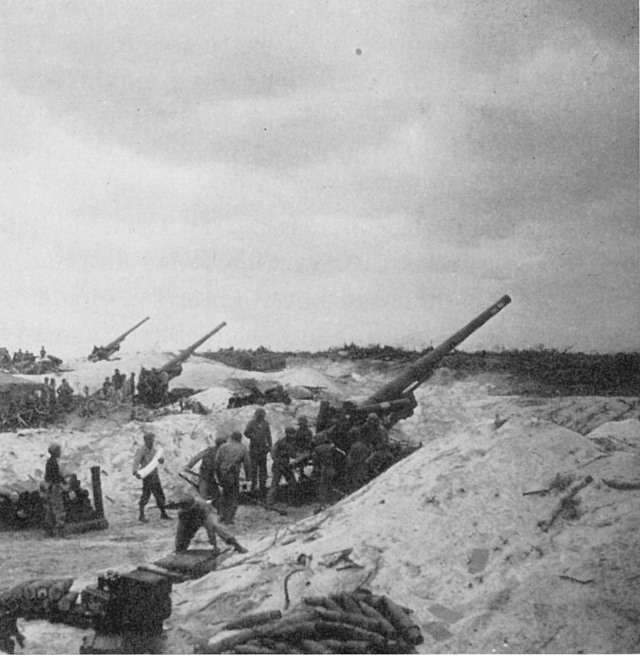 155MM GUNS (Long Tom) of the 420th Field Artillery Group are set up on Keise Shima to shell the enemy's main defenses prior to the Tenth Army assault landing.